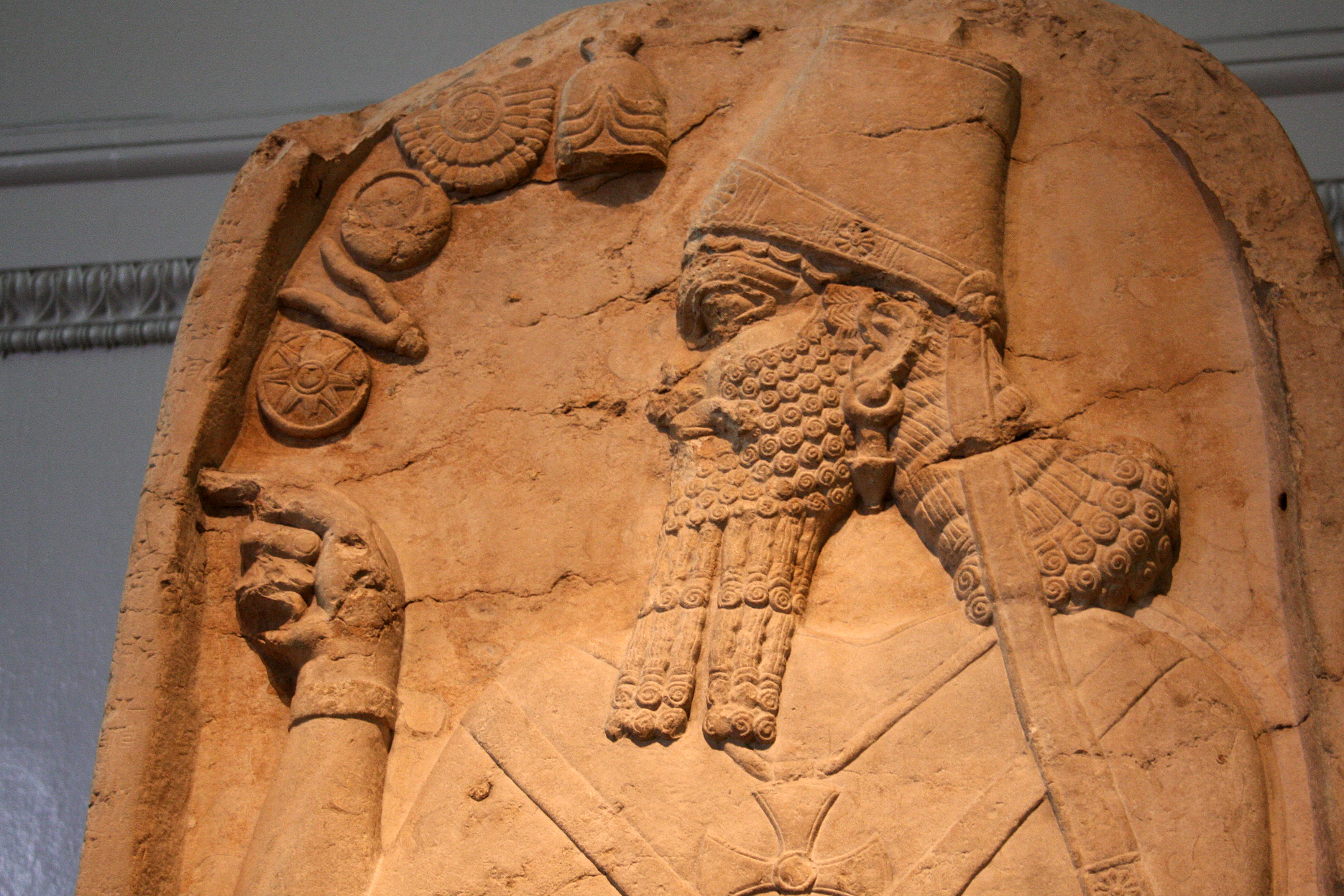 Shamshi-Adad V, Assyrian king 823–811 BC. The pictures shows a detail from a stela at the British Museum in London.